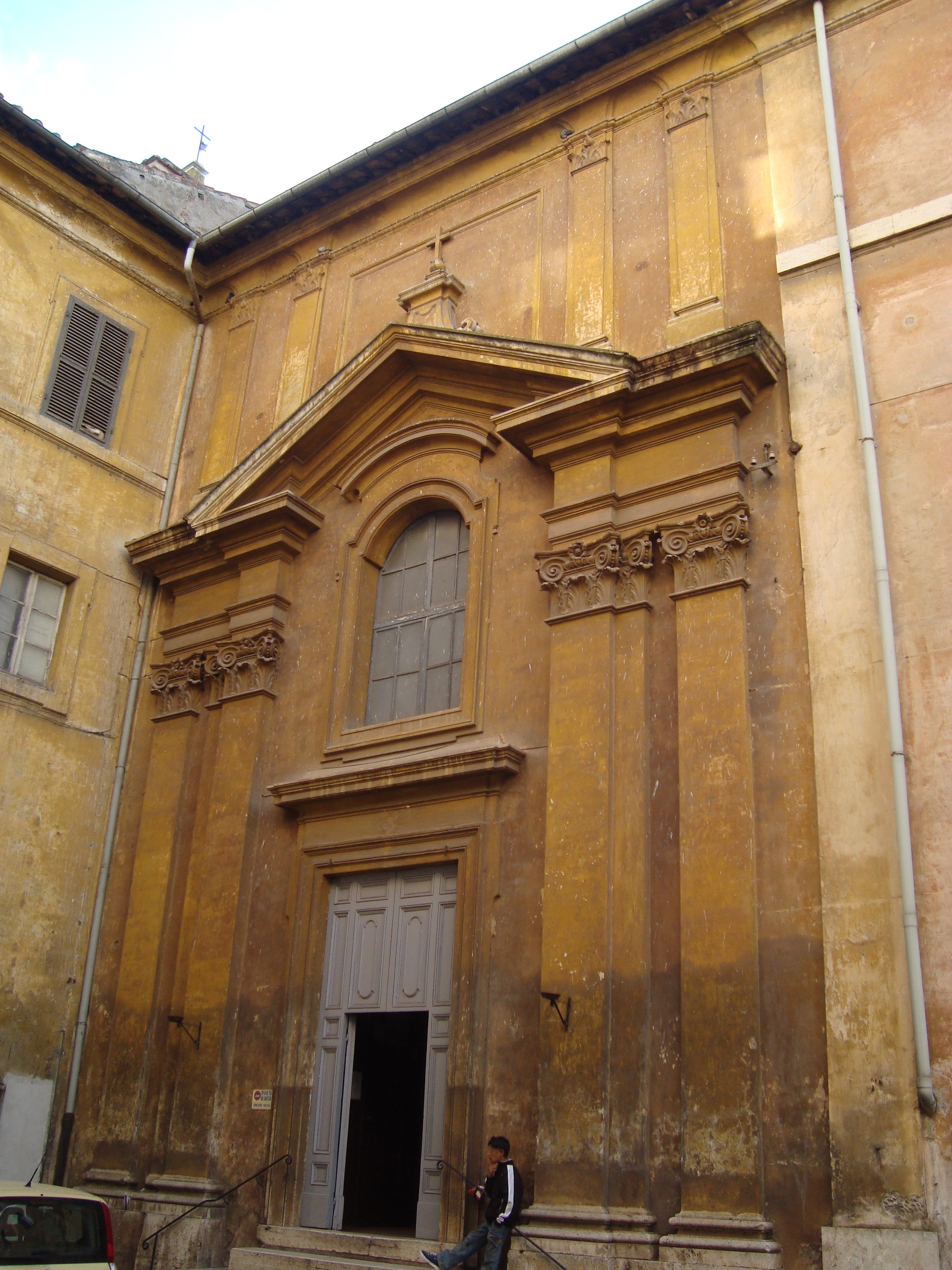 Church San Giovanni Evangelista in Tivoli